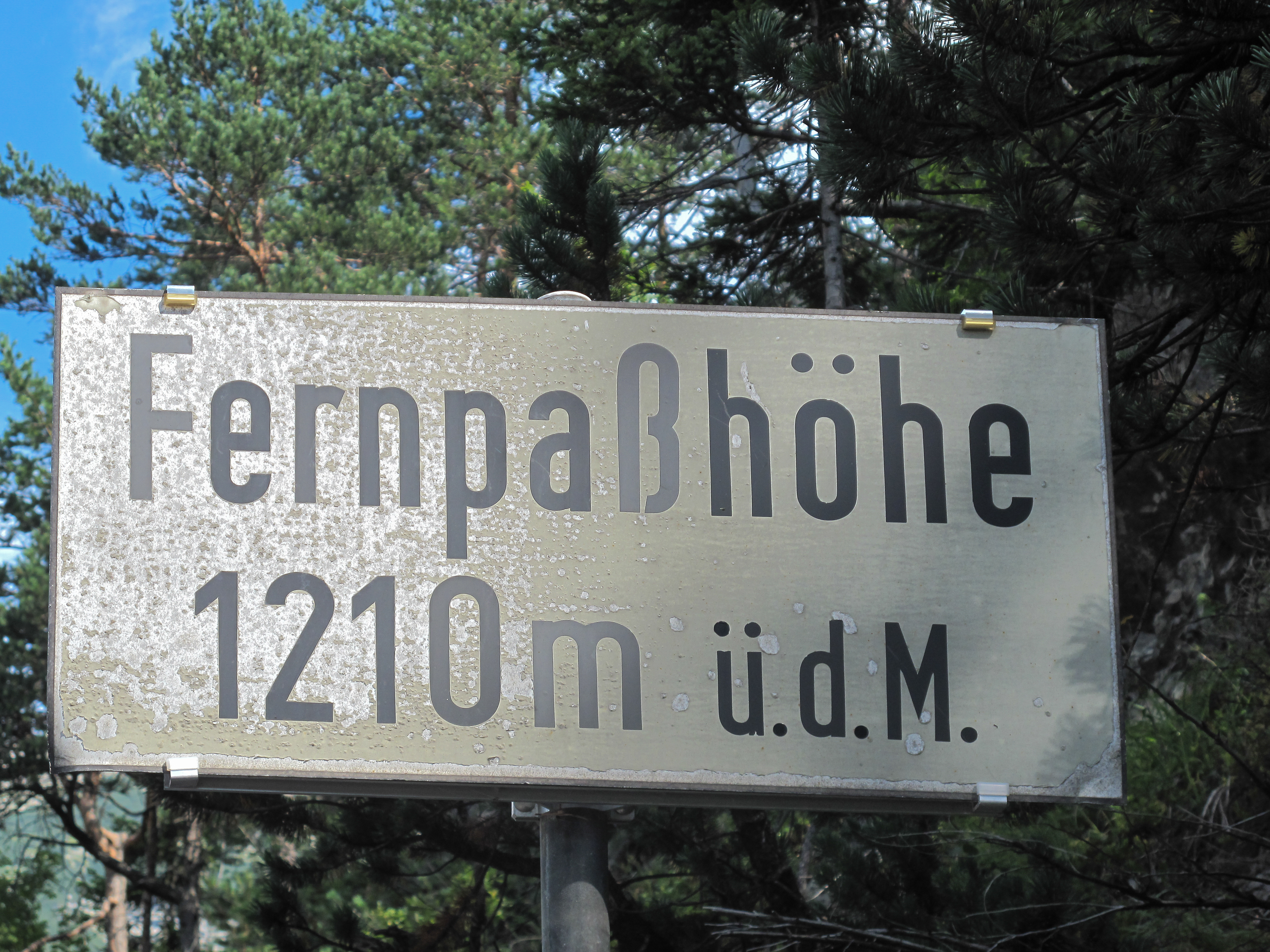 Fernpasshöhe, name sign